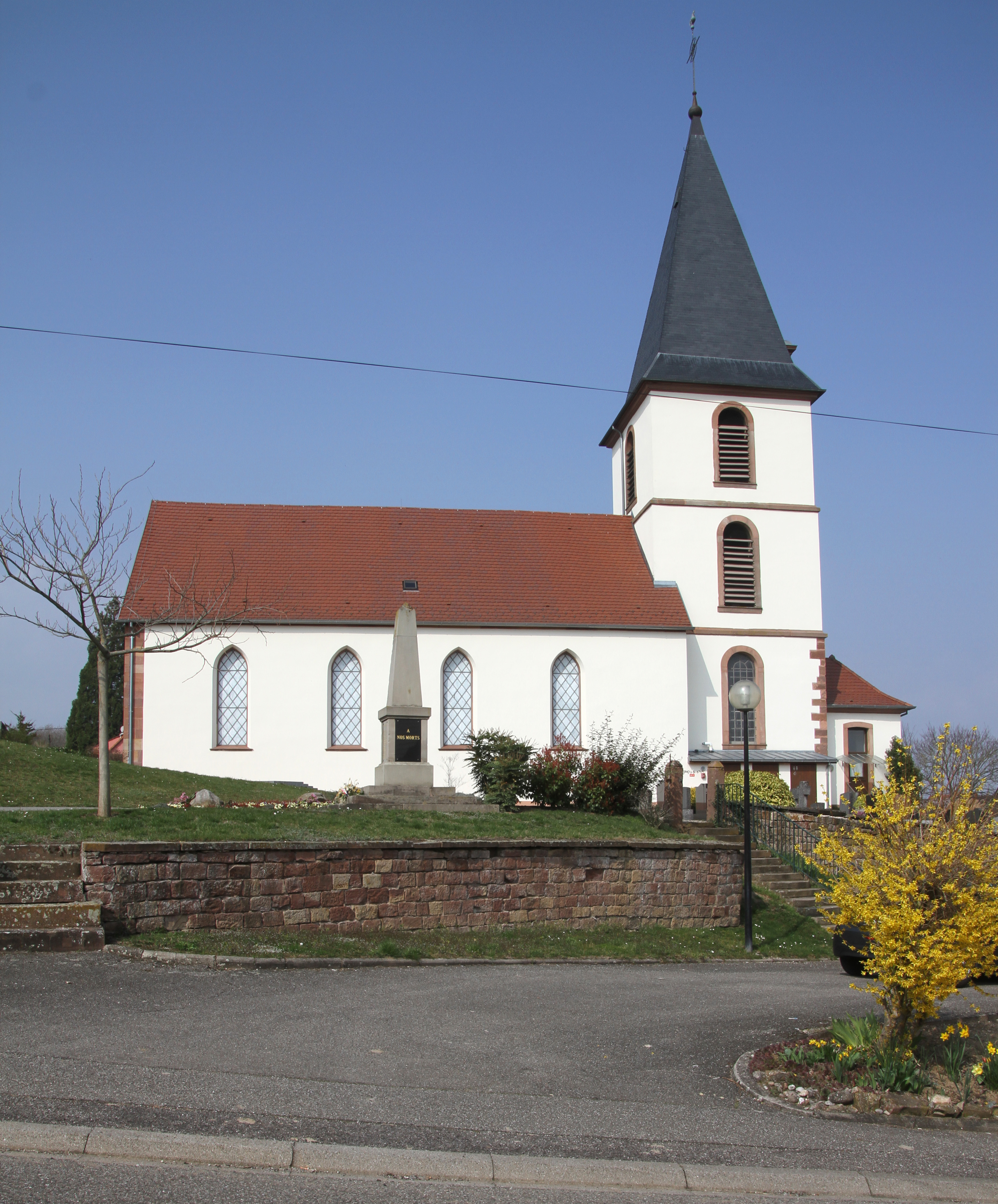 Church of All Saints in Morsbronn-les-Bains.